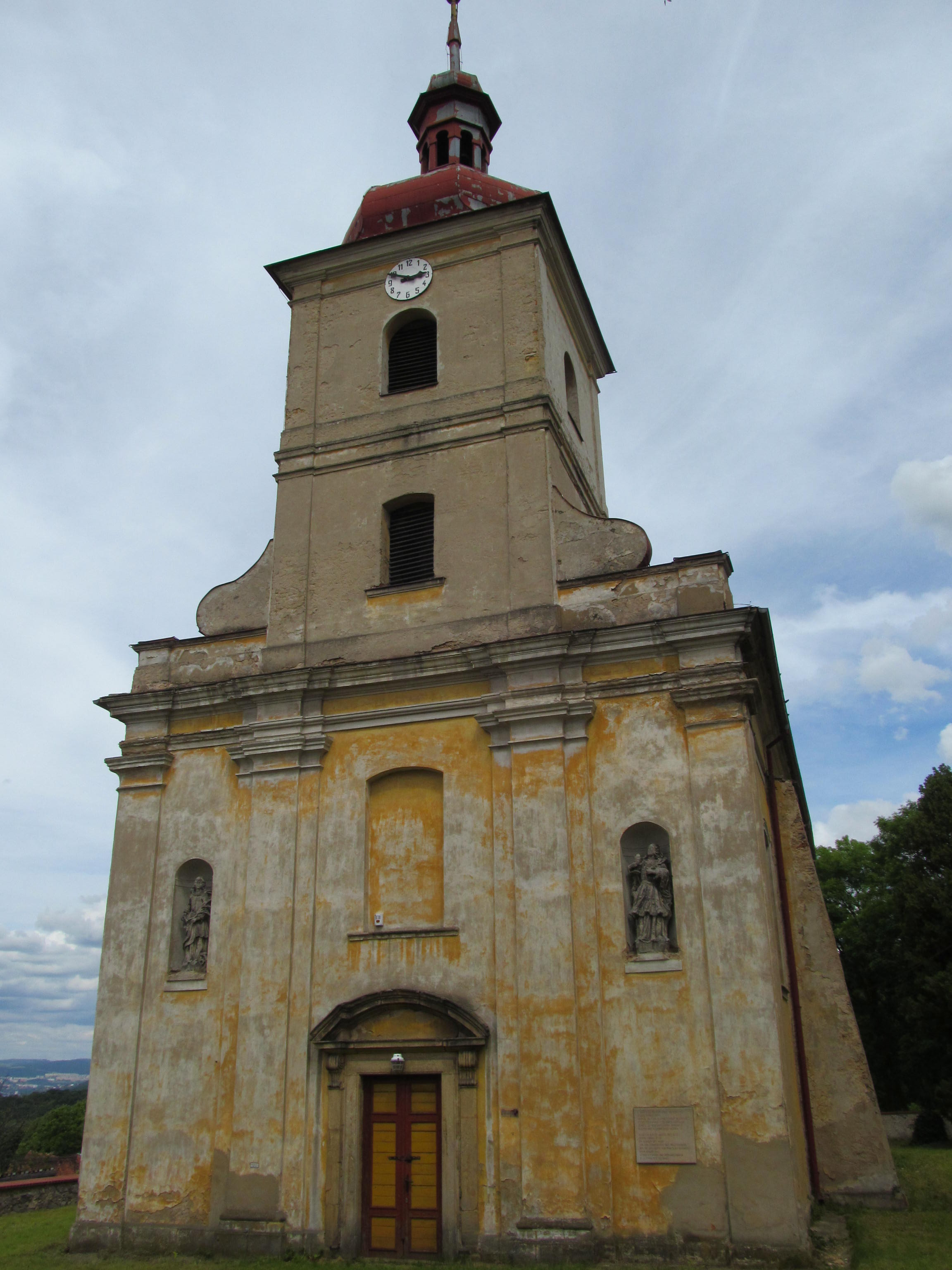 Frontage of the Church of Saint Catherine in Bořislav